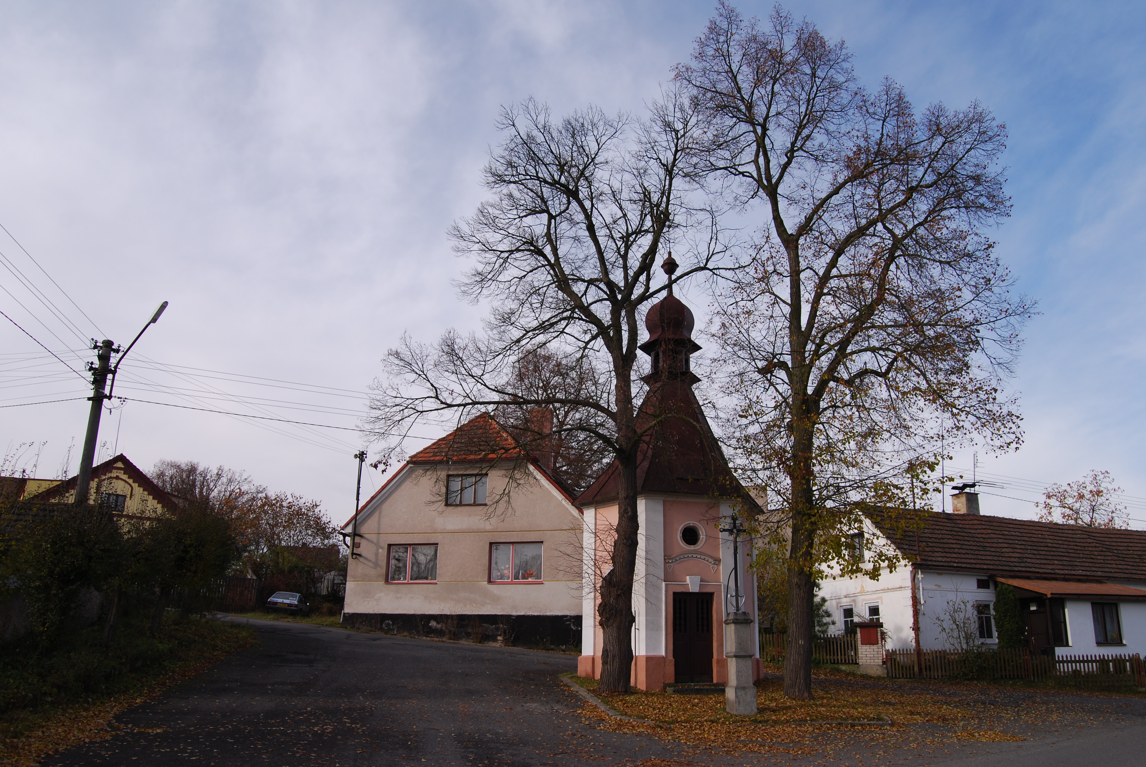 Bezděkov pod Třemšínem village in Příbram District, Czech Republic. Chapel